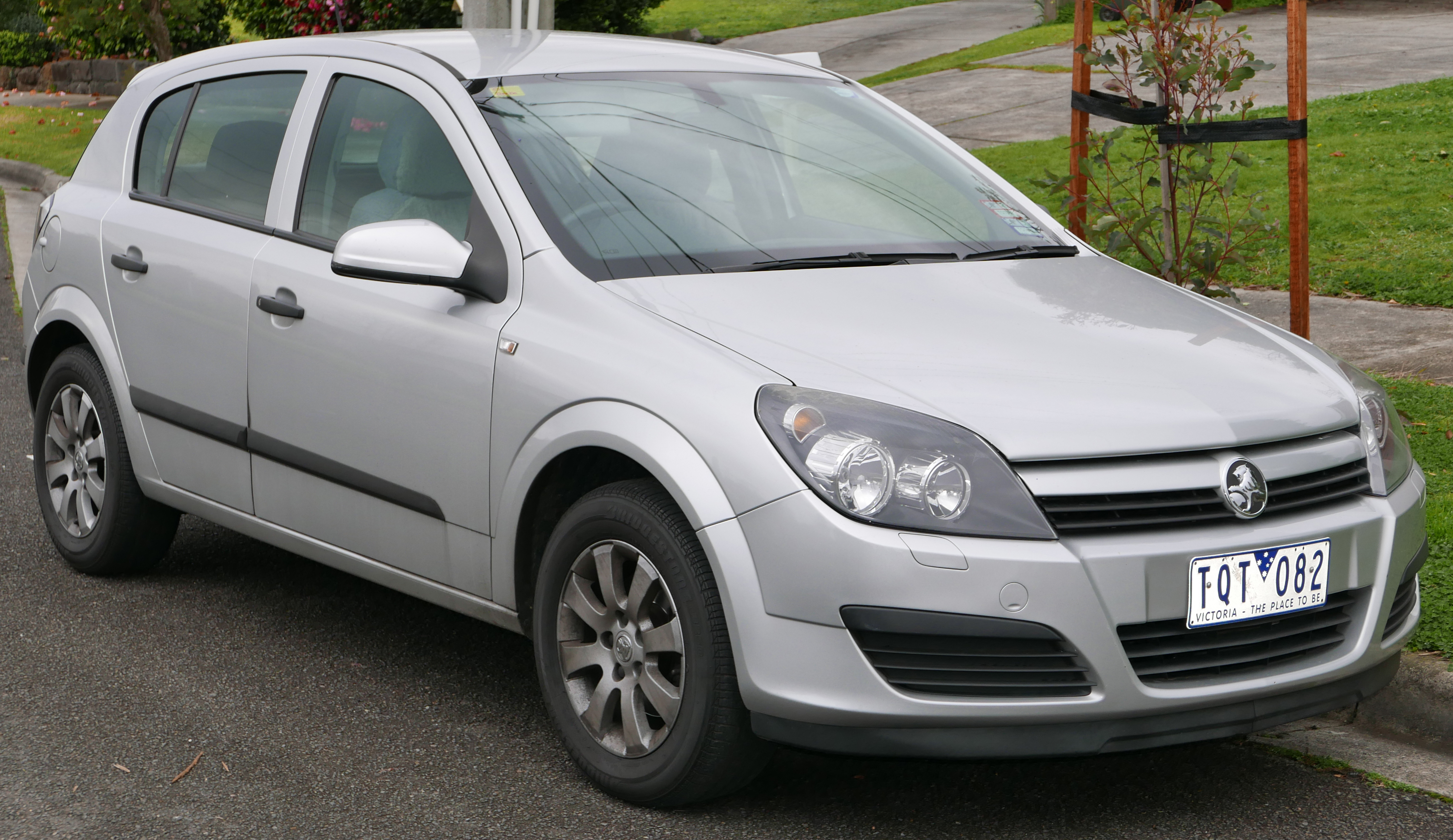 2005 Holden Astra (AH MY05) CD 5-door hatchback. Photographed in Doncaster, Victoria, Australia. Vehicle registration enquiry resultsJurisdictionVictoriaRegistrationTQT082Chassis codeW0L0AHL4855181782Engine codeZ18XE20FB3484Compliance date2005-07Year of manufacture2005